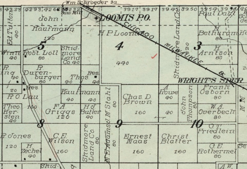 Map detail of Loomis, Wisconsin. From Standard Atlas of Marinette County Wisconsin Including a Plat Book of the Villages, Cities and Townships of the County. 1912. Chicago: Geo. A. Ogle & Co.